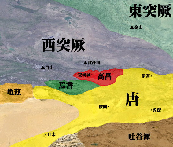 Gāochāng of Tang Dynasty age.